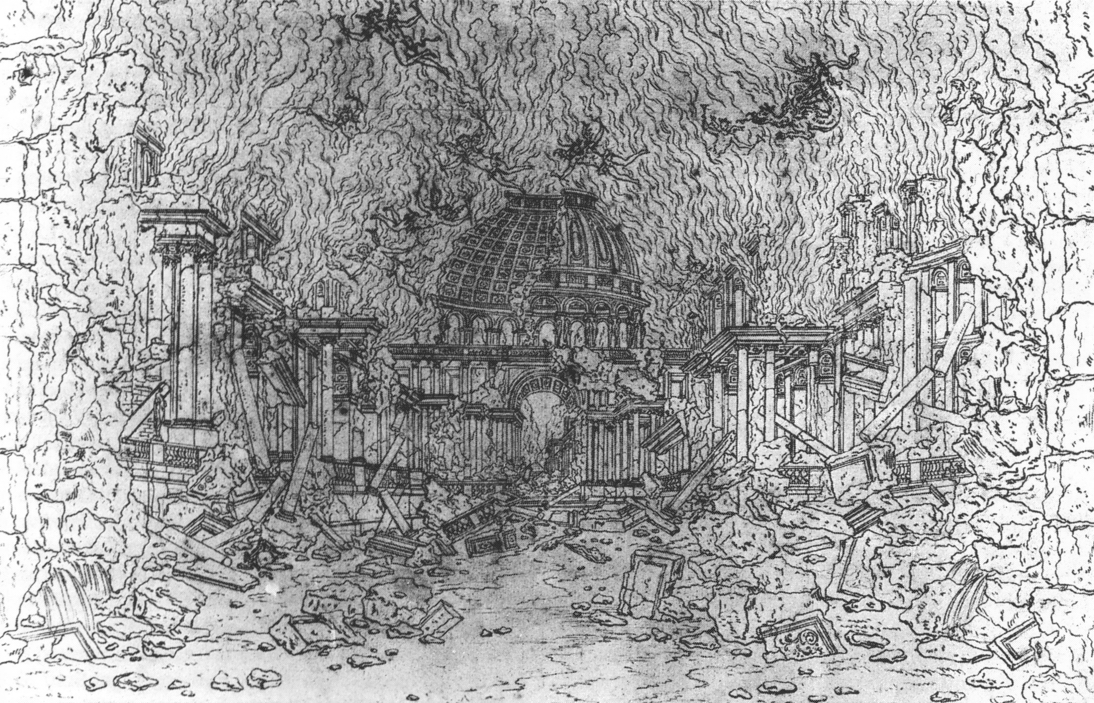 Armide - acte 5 - the destruction of the palais - Jean Bérain 1686